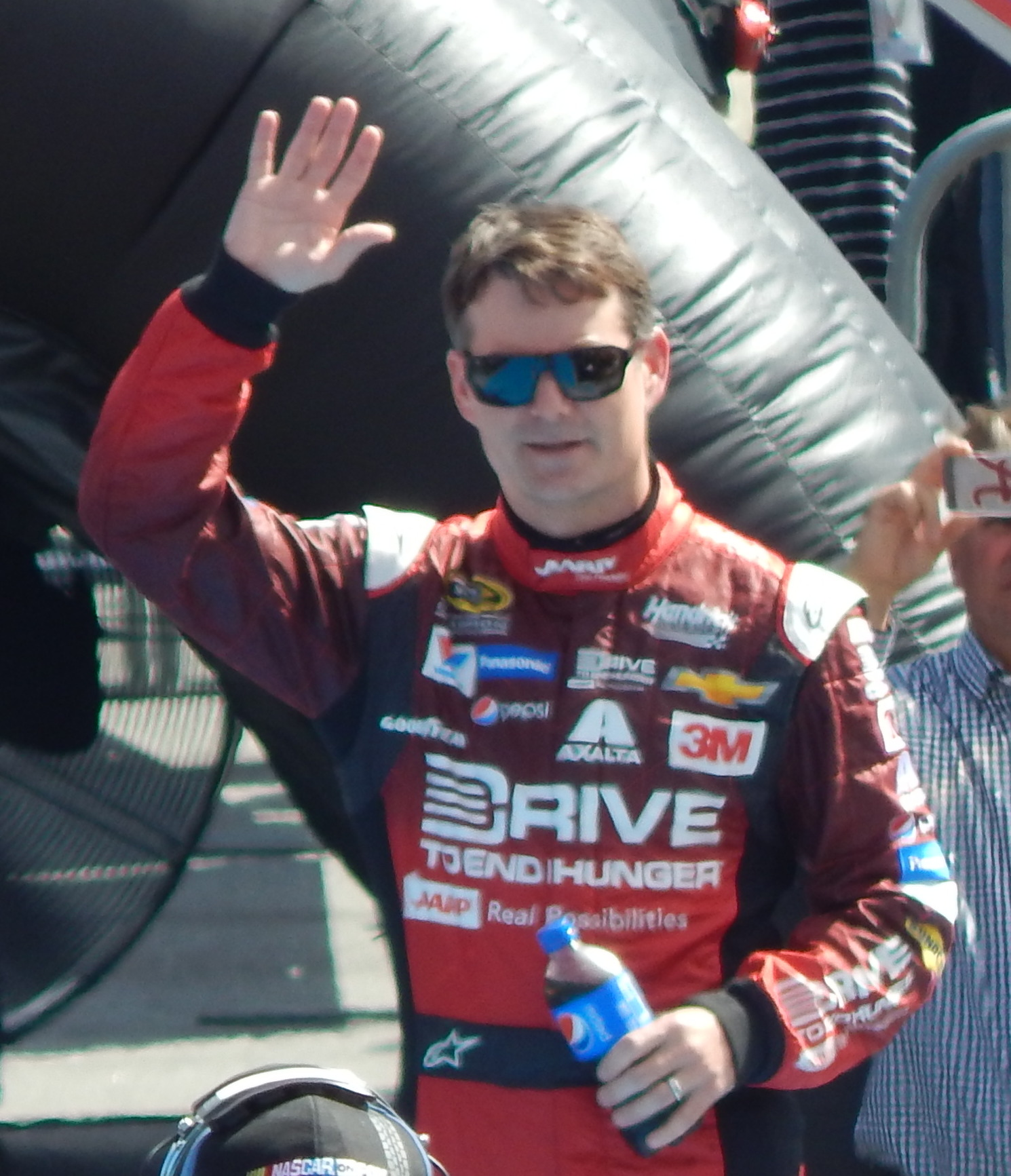 Jeff Gordon being introduced in his 23rd and final Daytona 500.